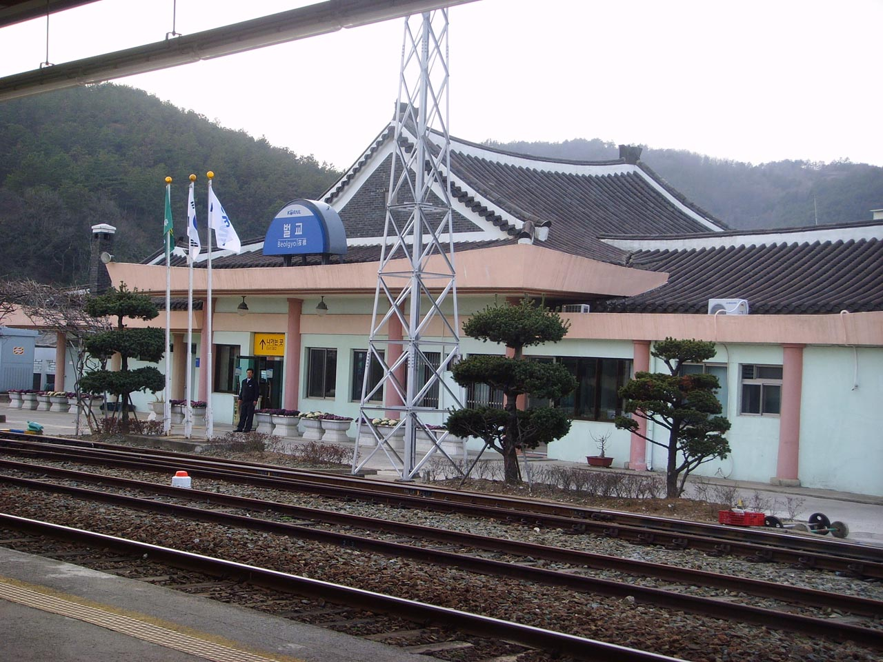 Beolgyo Station (Gyeongjeon Line), (Beolgyo-eup, Boseong-gun, Jeollanam-do, South Korea)